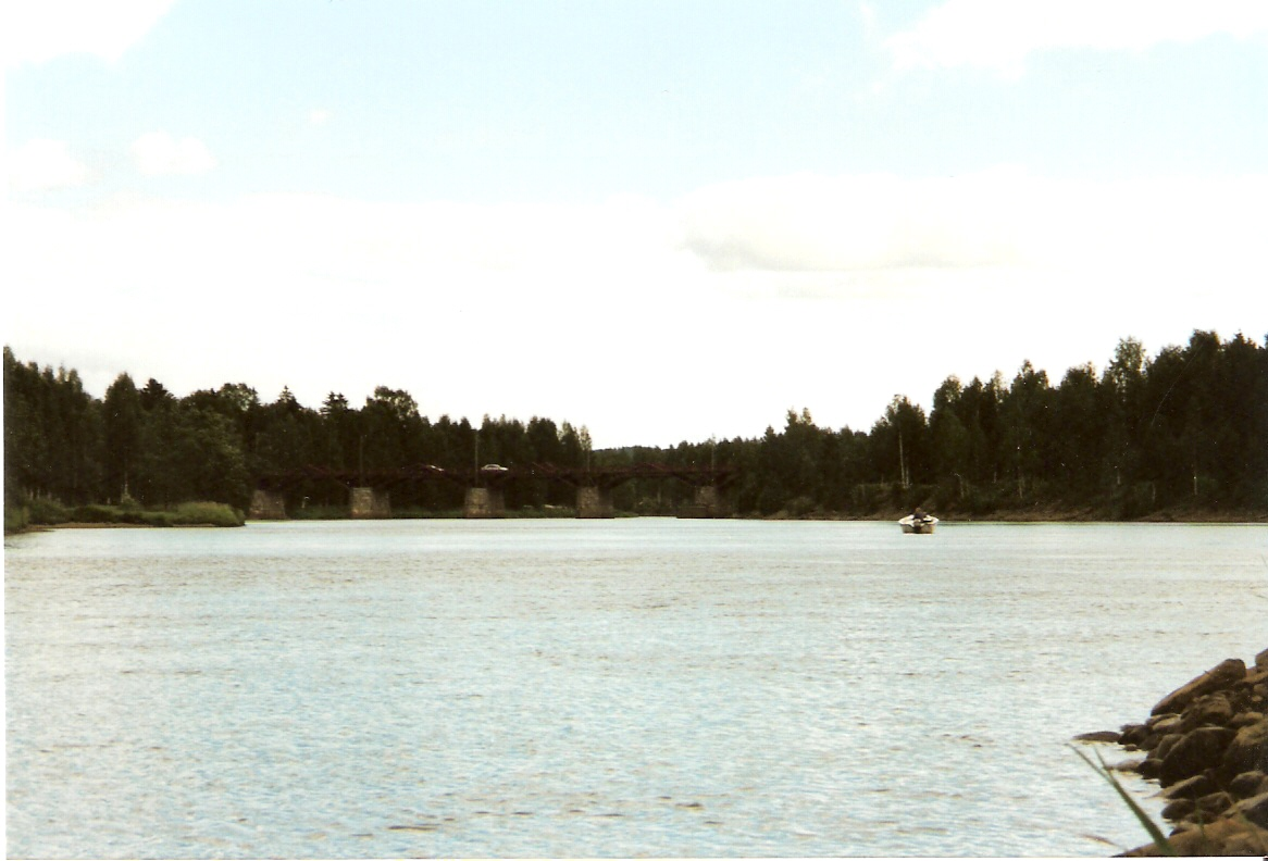 Skelleftea, Sweden